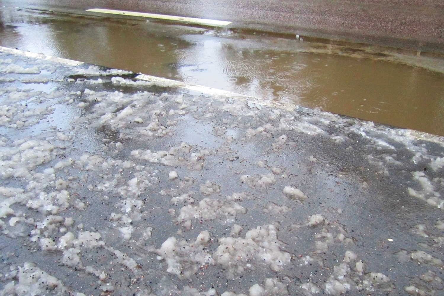 Slush and granite sand on sidewalk and puddle on roadway, and rain (Estonia)